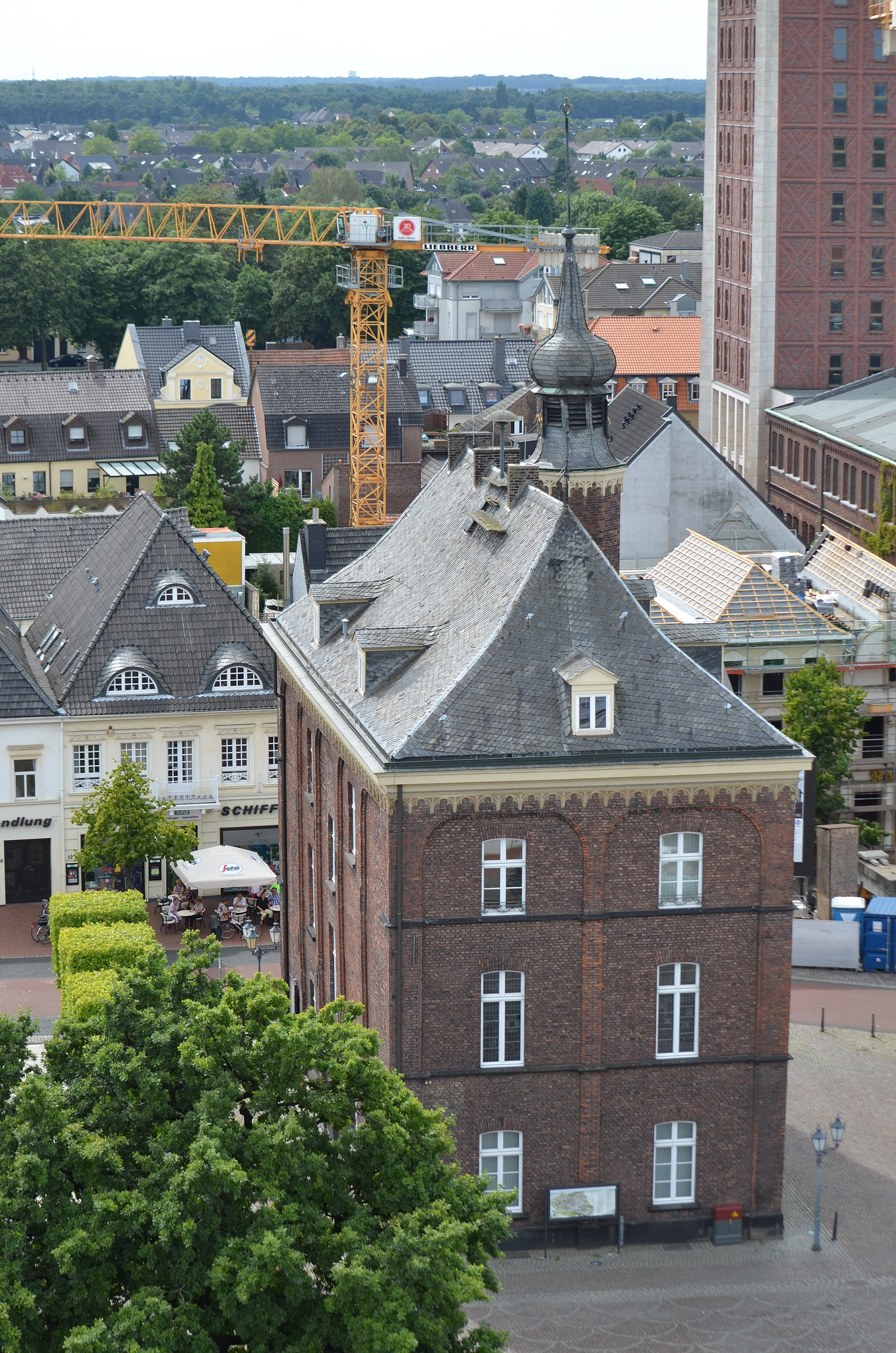 Rheinberg (North Rhine-Westphalia, Germany) – Old Town Hall at the market square This image shows a heritage building in Germany, located in the North Rhine-Westphalian city Rheinberg (no. 74). This photograph was taken with a Nikon D7000